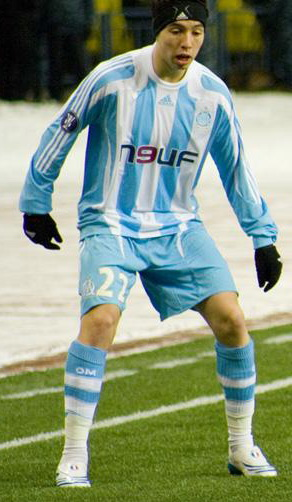 Samir Nasri